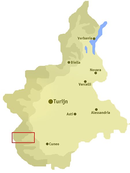 Position of the valley Val Varaita